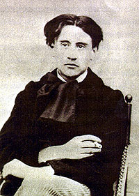 Portrait of French painter Édouard Cortès